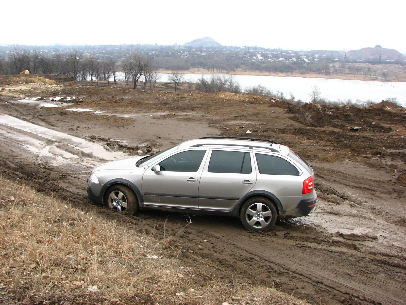 A Skoda in mud.